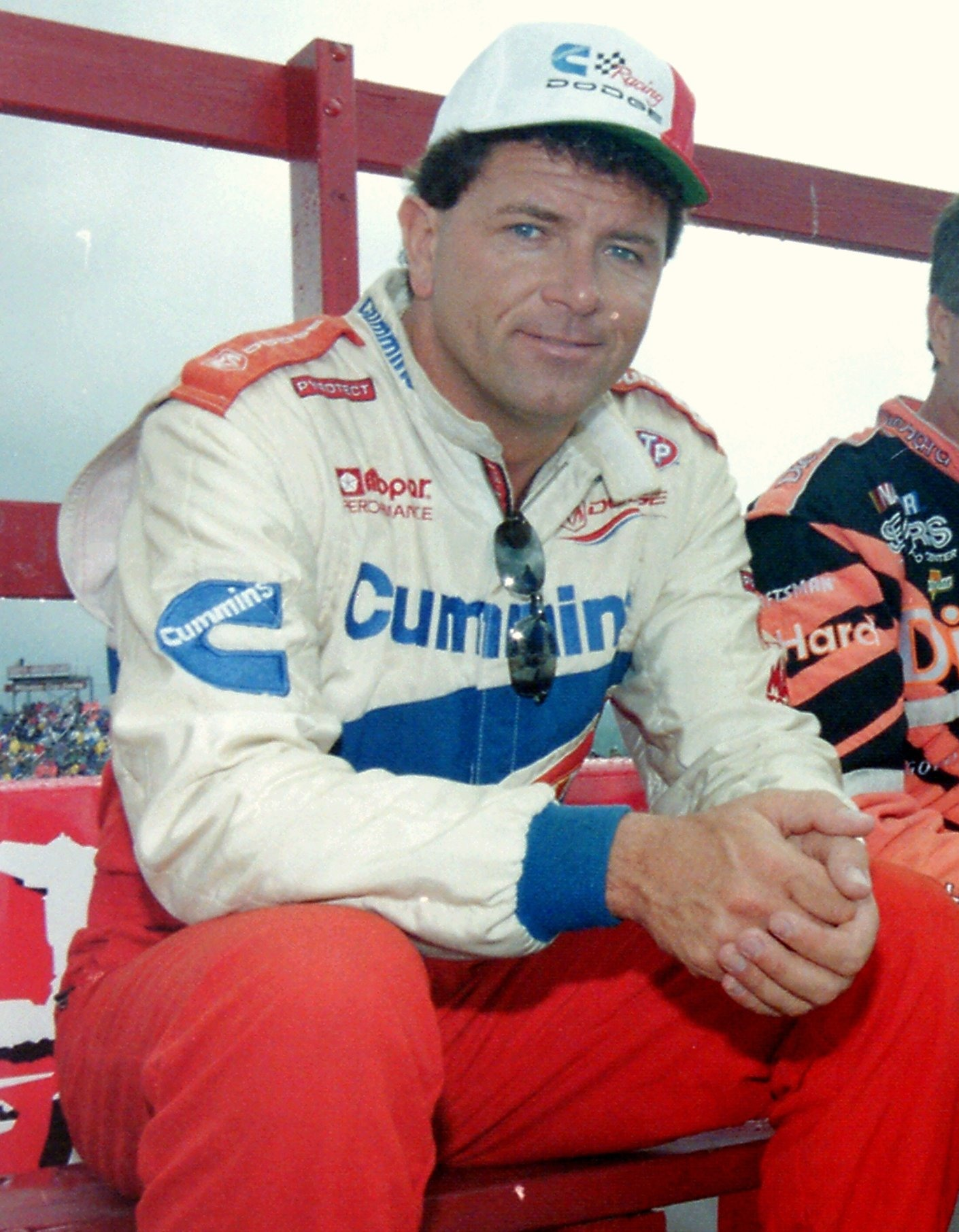 NASCAR driver Rich Bickle, cropped from original